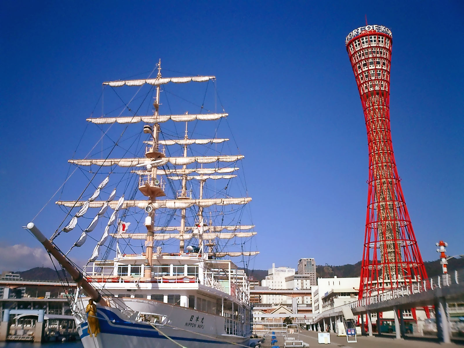 Kobe_port_tower_and_Nihonmaru_replica